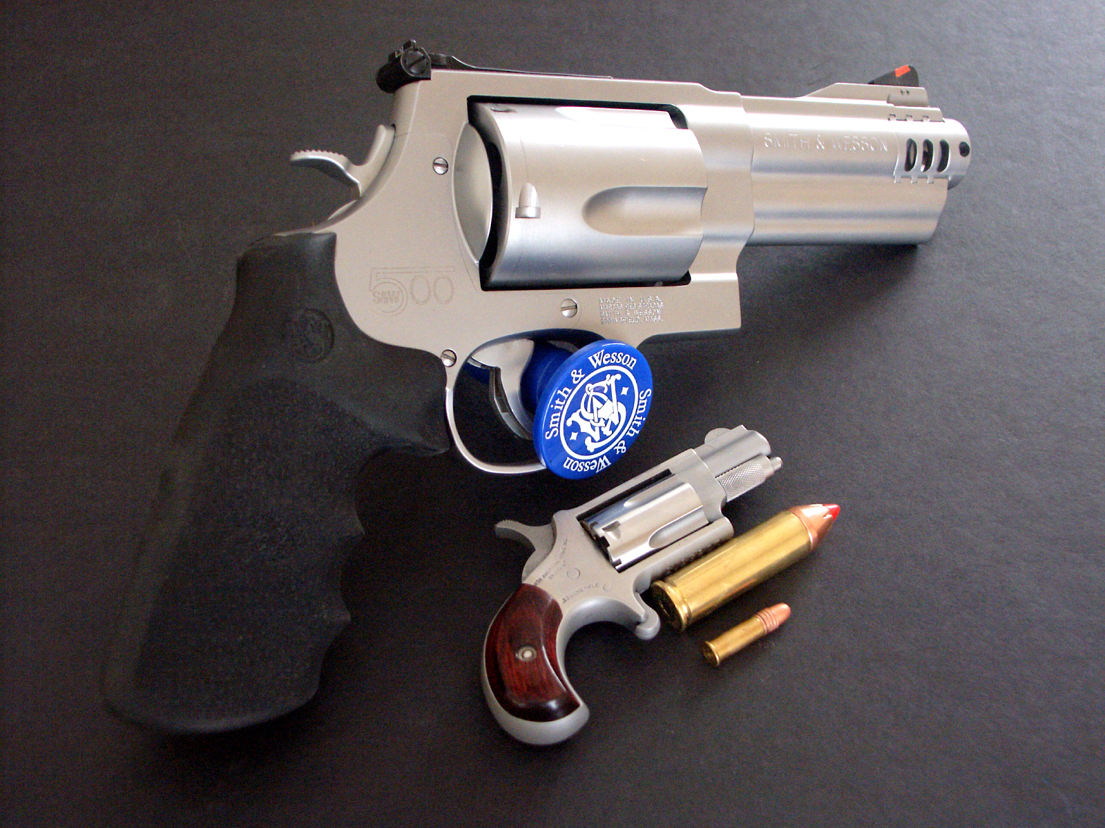 Smith & Wesson 500 Magnum & NAA Mini .22 LR